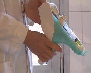 Electronic injector to practice professional Mesotherapy with Lithium ion battery.(